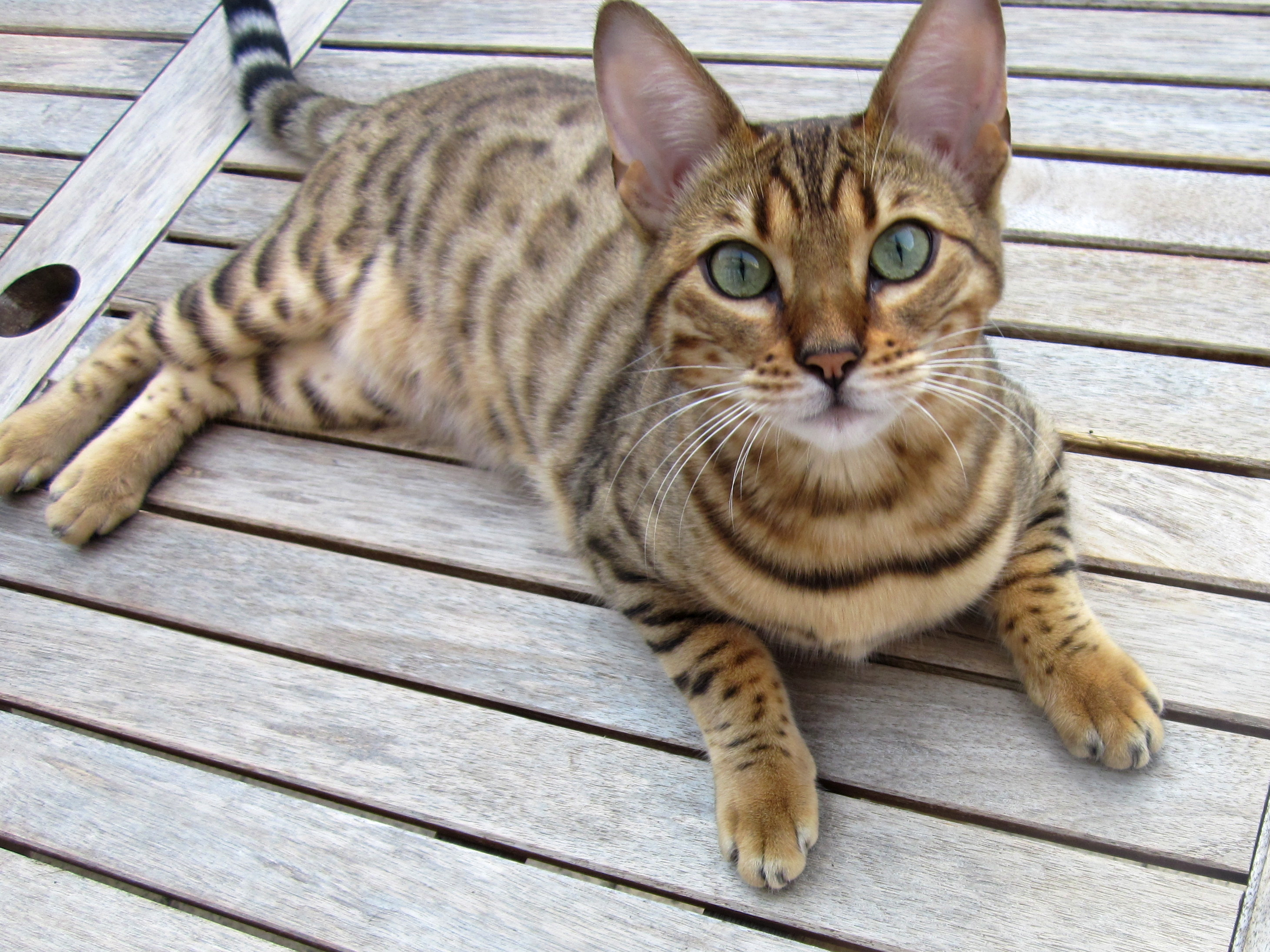 Or is it a tiger?